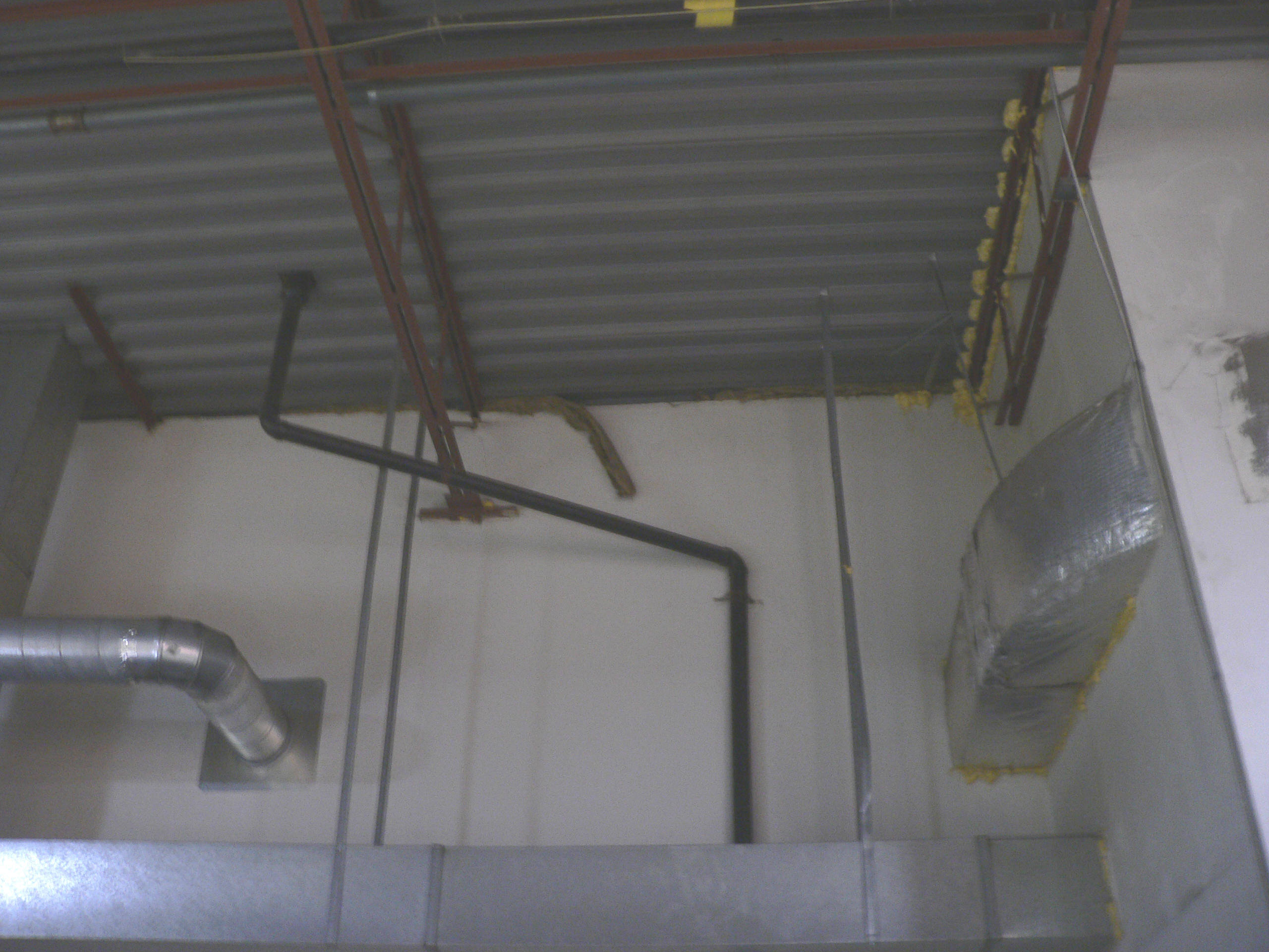 Insulated ducting and exposed polyurethane foam.